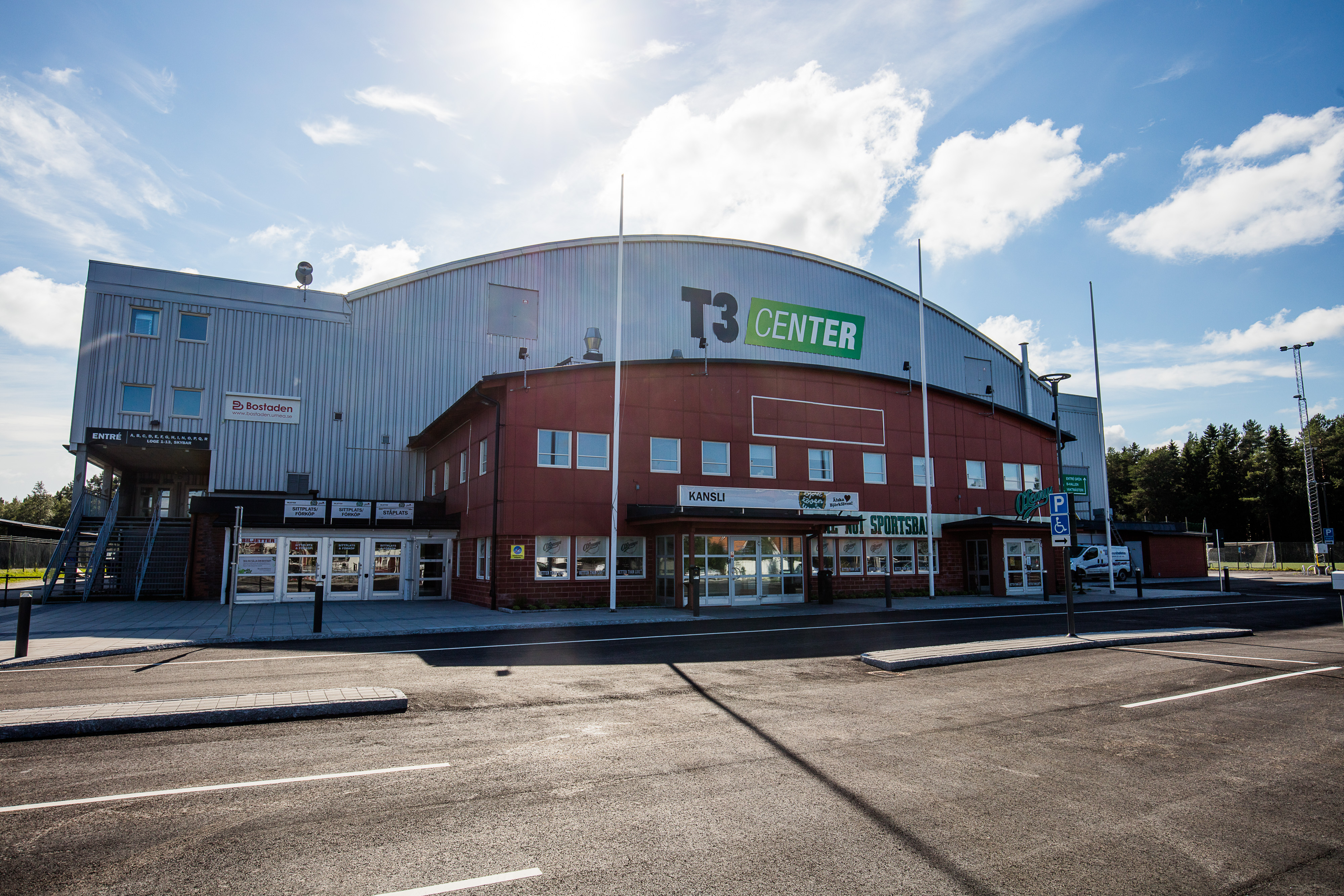 Ice Hockey venue T3 Center was earlier called Umeå Arena, SkyCom Arena and Umeå ishall.